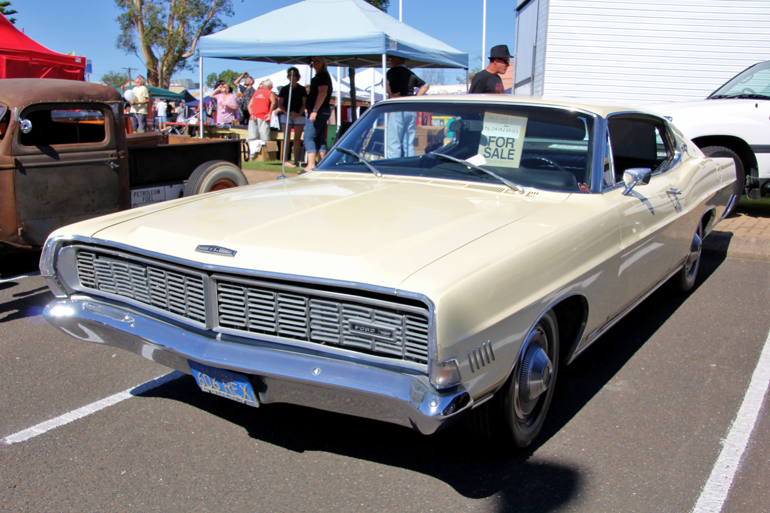 1968 Ford Galaxie 500 XL coupe. Taken at the 2012 Kurri Kurri Nostalgia Festival, held in Kurri Kurri, New South Wales.